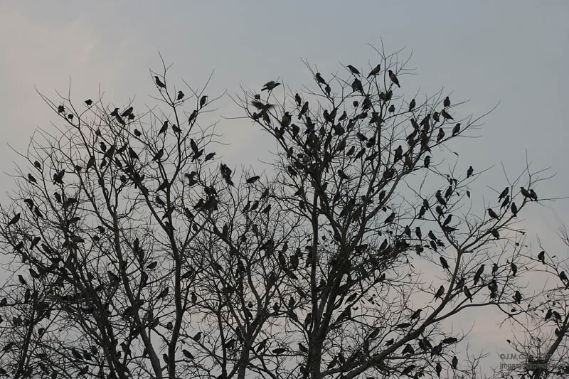 Rosy Starling Sturnus roseus in Vadodara, Gujarat, India.